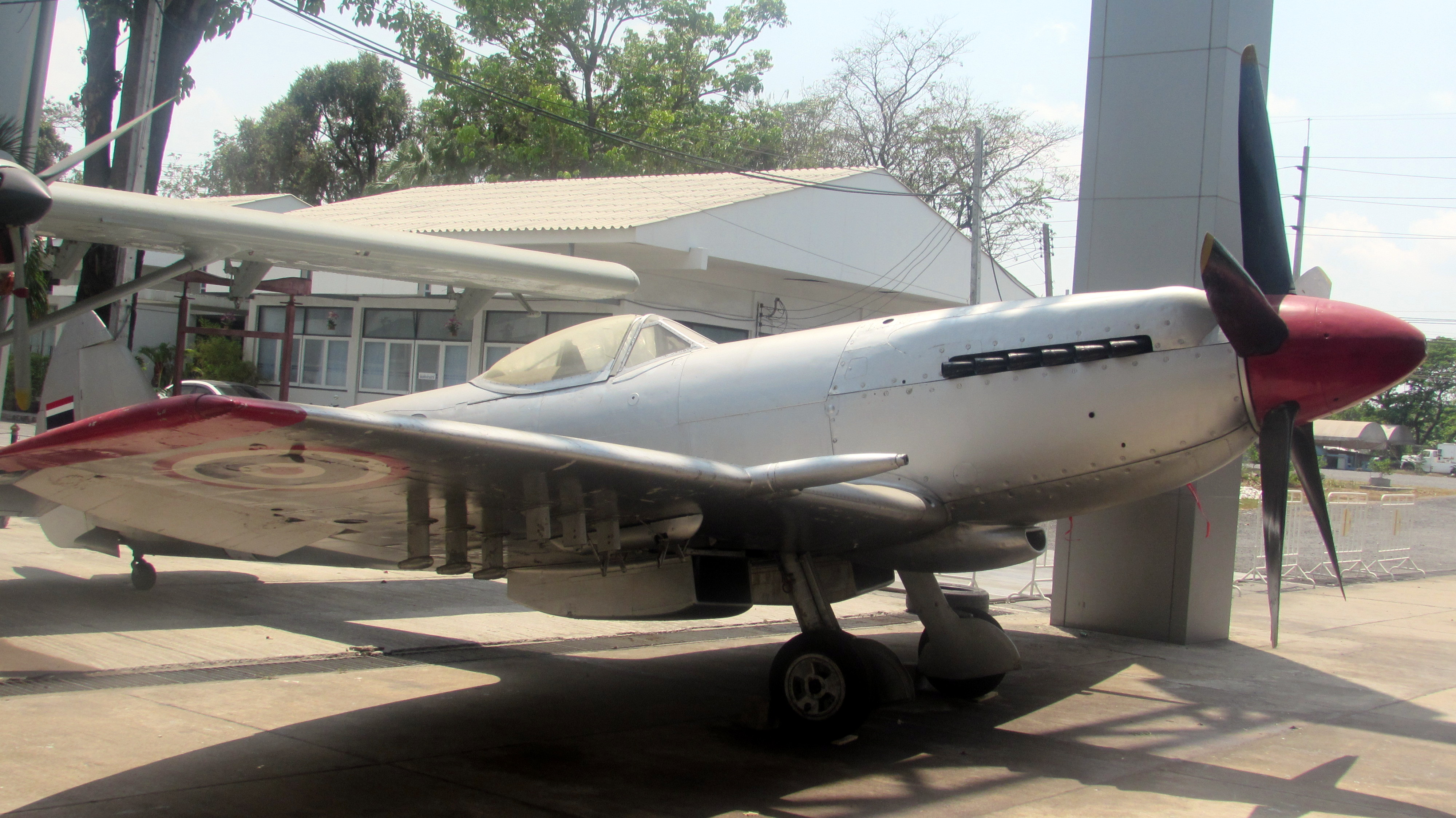 Side view of a Supermarine Spitfire of the Royal Thai Air Force. Photo taken at the Royal Thai Air Force Museum.